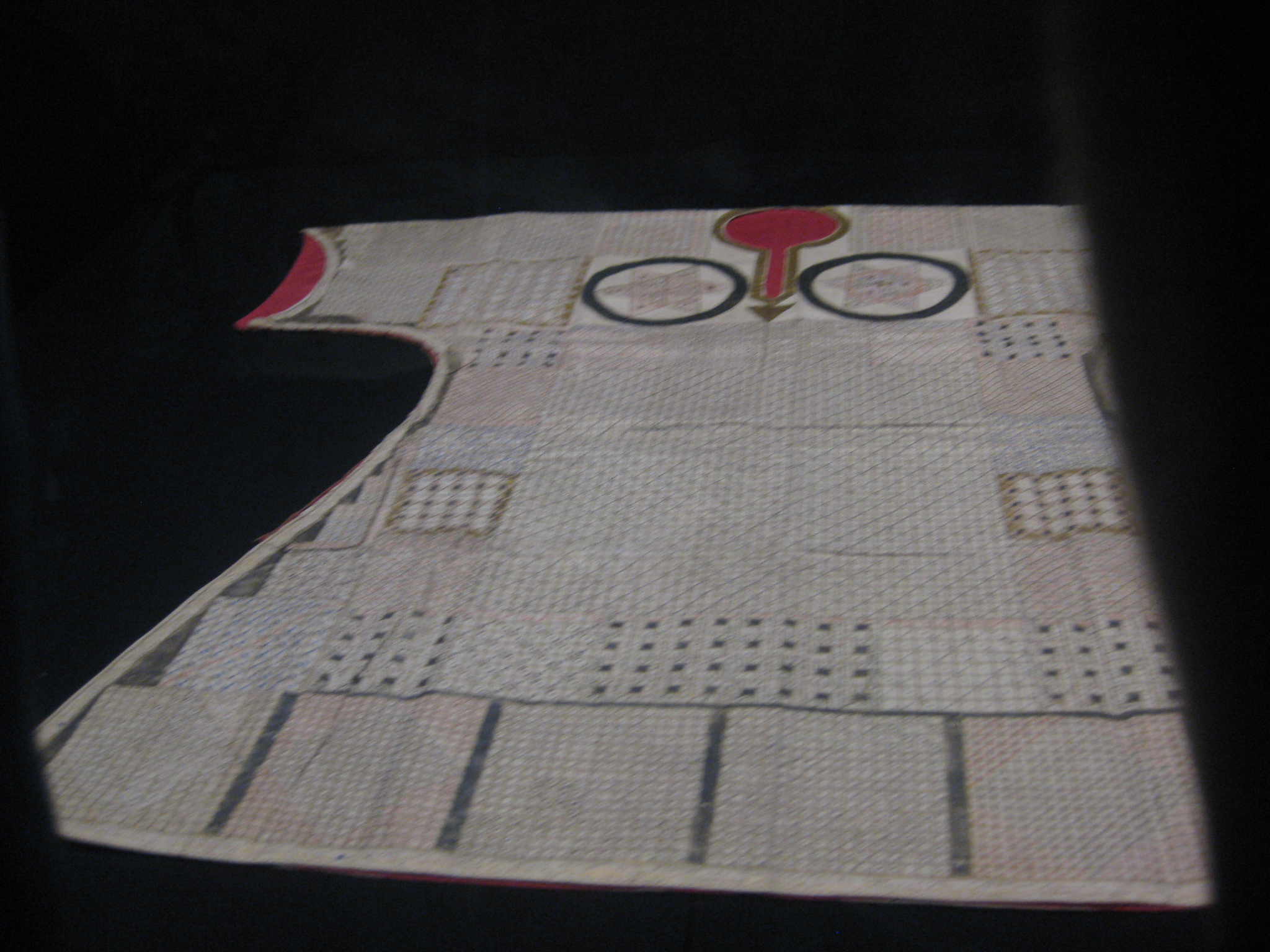 Imperial Talisman Shirt Inside of Topkapi palace MuseumTürkçe: tılsımlı gömlek